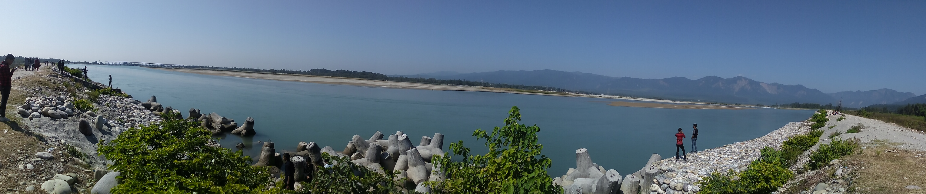 Barrage of mahakali river. Situated in India.